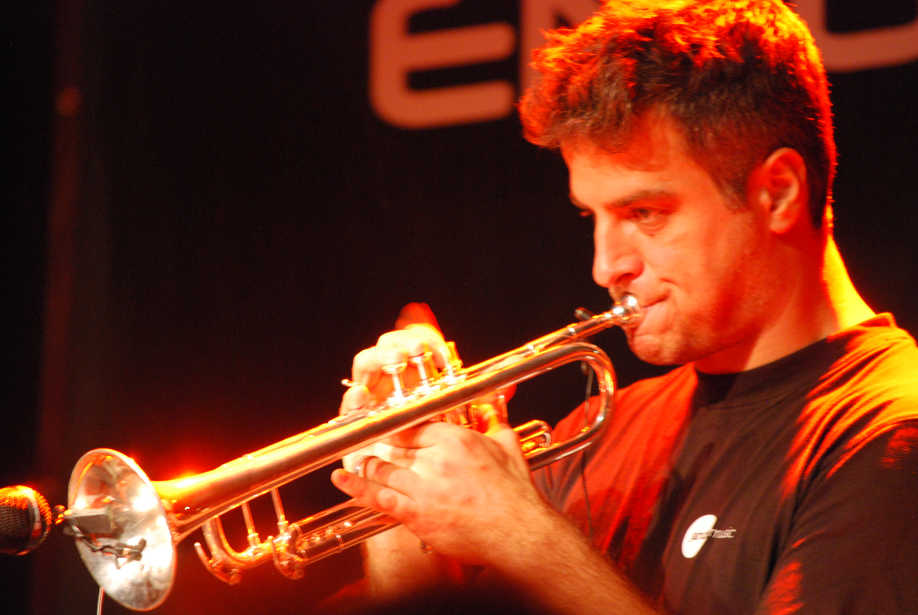 w/ Manu Katché, Ludwigshafen, dasHaus, 24.10.2014